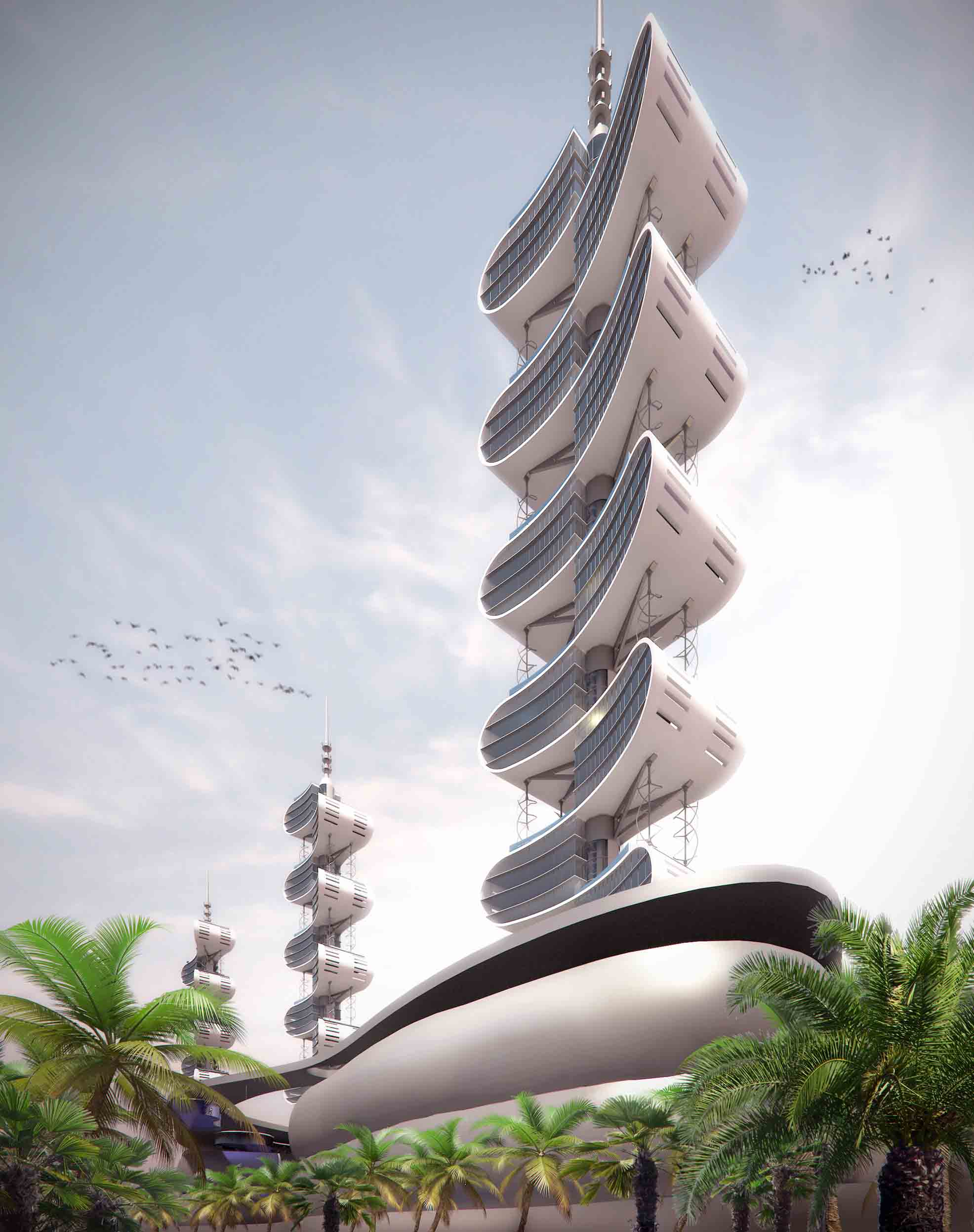 Main tower and artificial island designed by Arch. Richard Moreta Castillo, created to be reproduced in different latitudes.